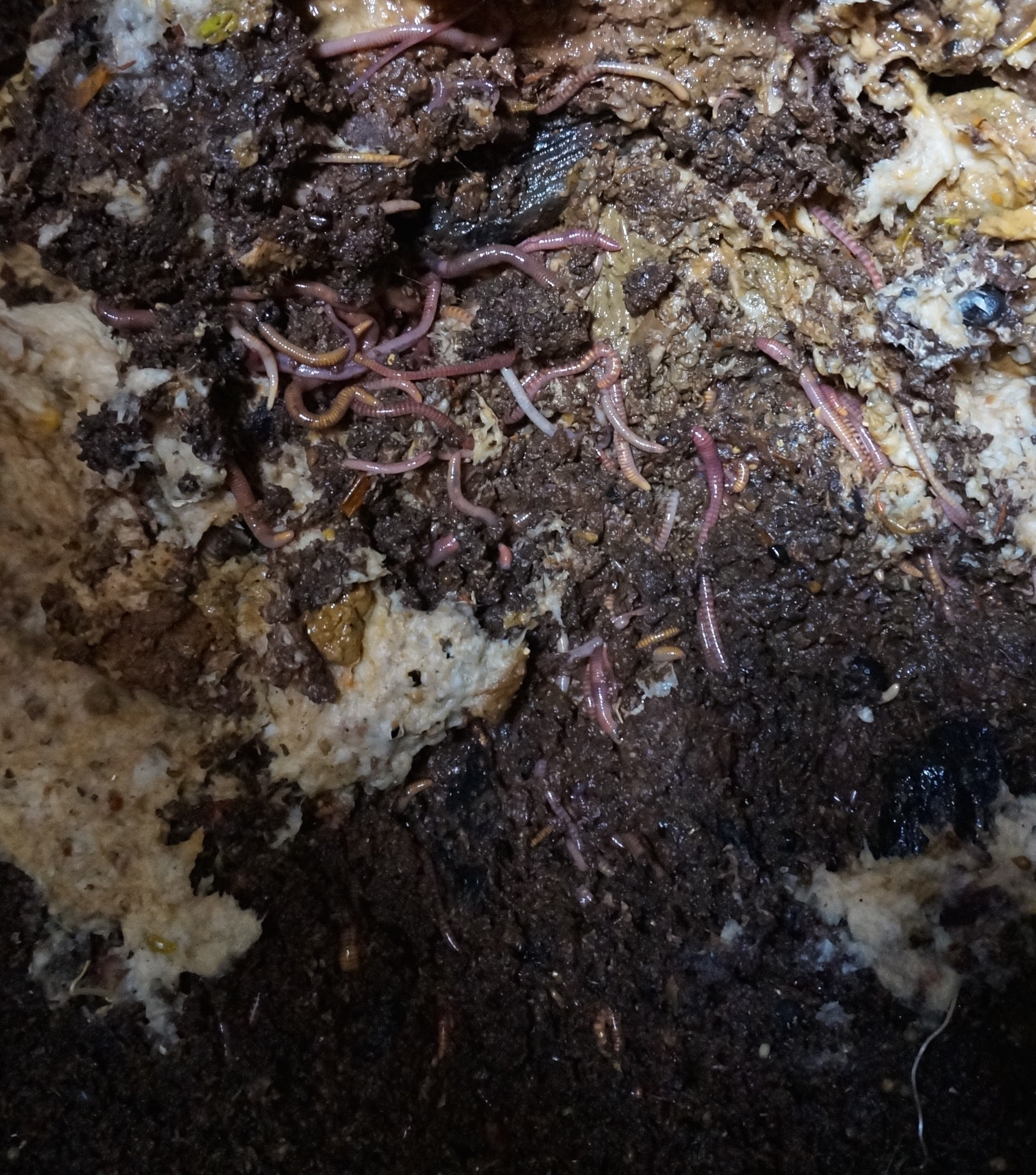 Vermicomposting of toilet blackwater 1 (earthworms worms exposed)